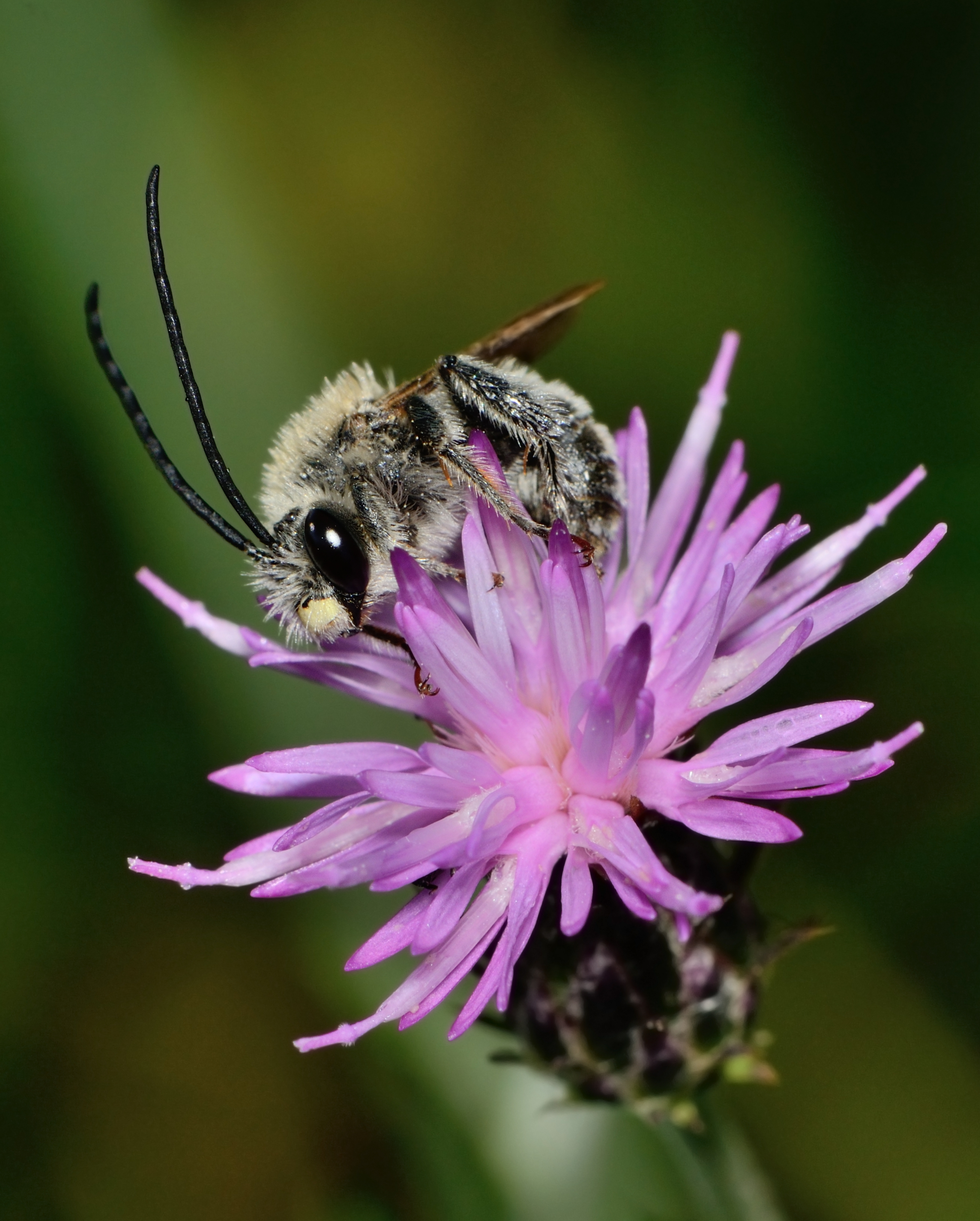 Eucera cinnamomea Alfken 1935, male sleeping on a capitulum of Carduus argentatus, Mount Carmel, Israel, April 14, 2013. Det. Stephan Risch 2014.